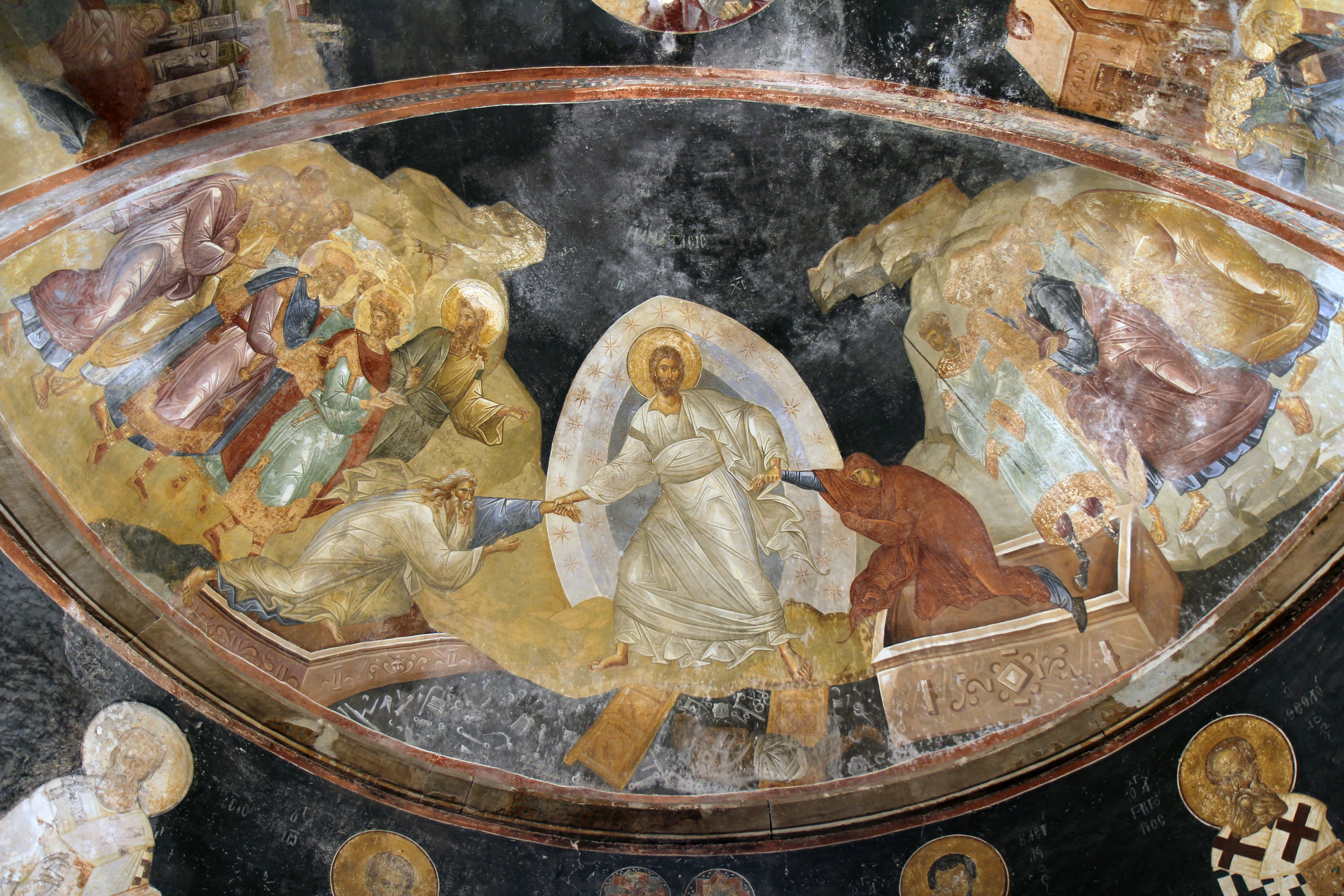 Anastasis fresco, Chora Church, Istanbul.